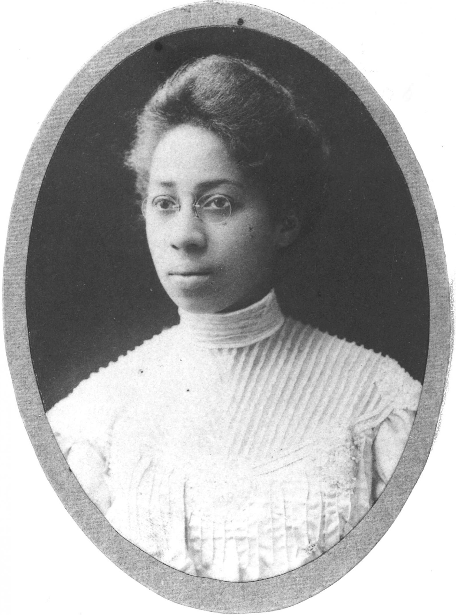 Photo of Myrtle Craig Mowbray. The portrait is from the 1907 Jubilee Wolverine (yearbook of the Michigan Agricultural College), according to the caption of a reproduction of this image in: Widder, Keith R. (2005). Michigan Agricultural College: The Evolution of a Land-Grant Philosophy, 1855-1925. East Lansing: Michigan State University Press. pp. 346–348. ISBN 0870137344